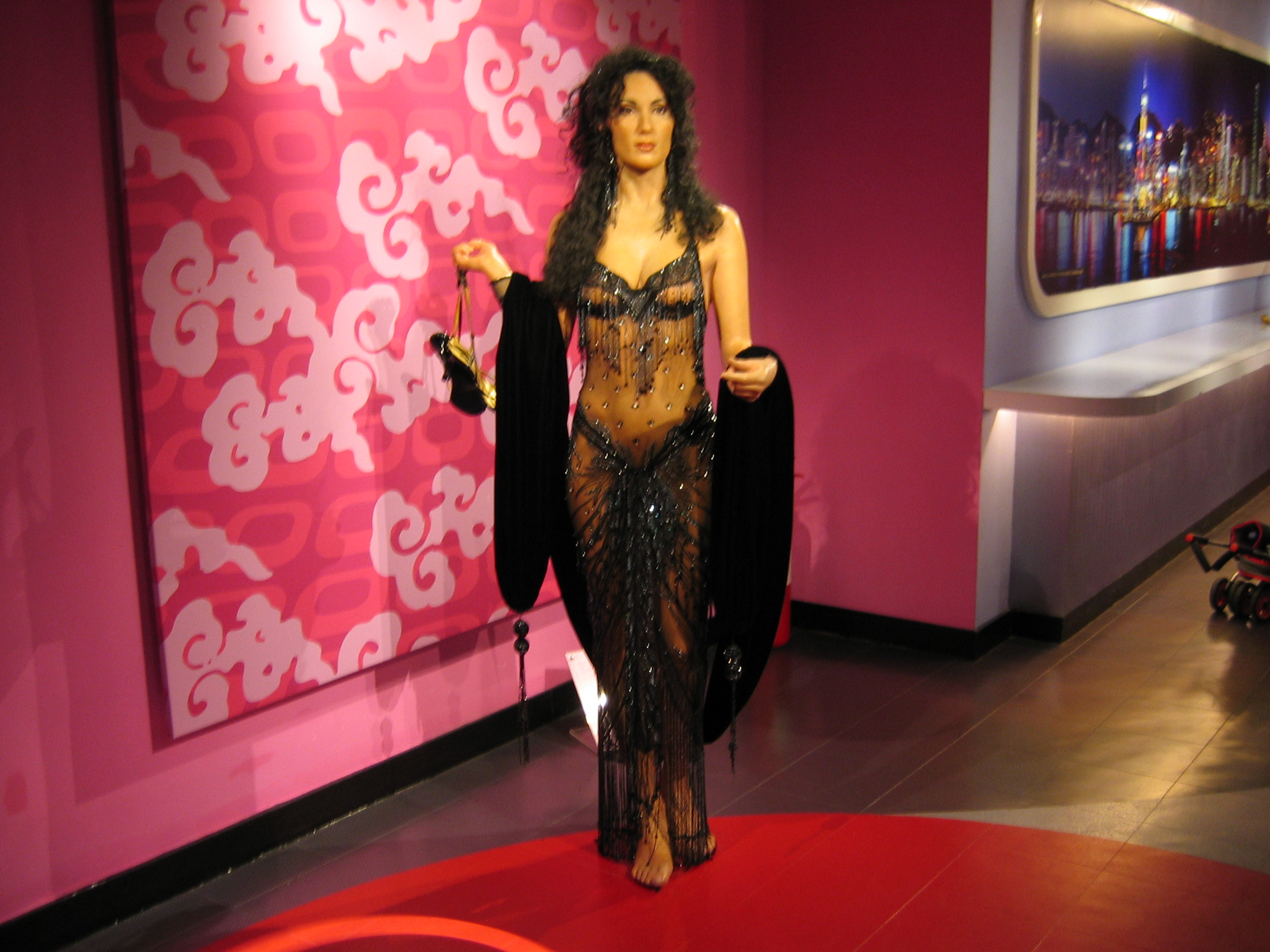 Cher. Wax figure.